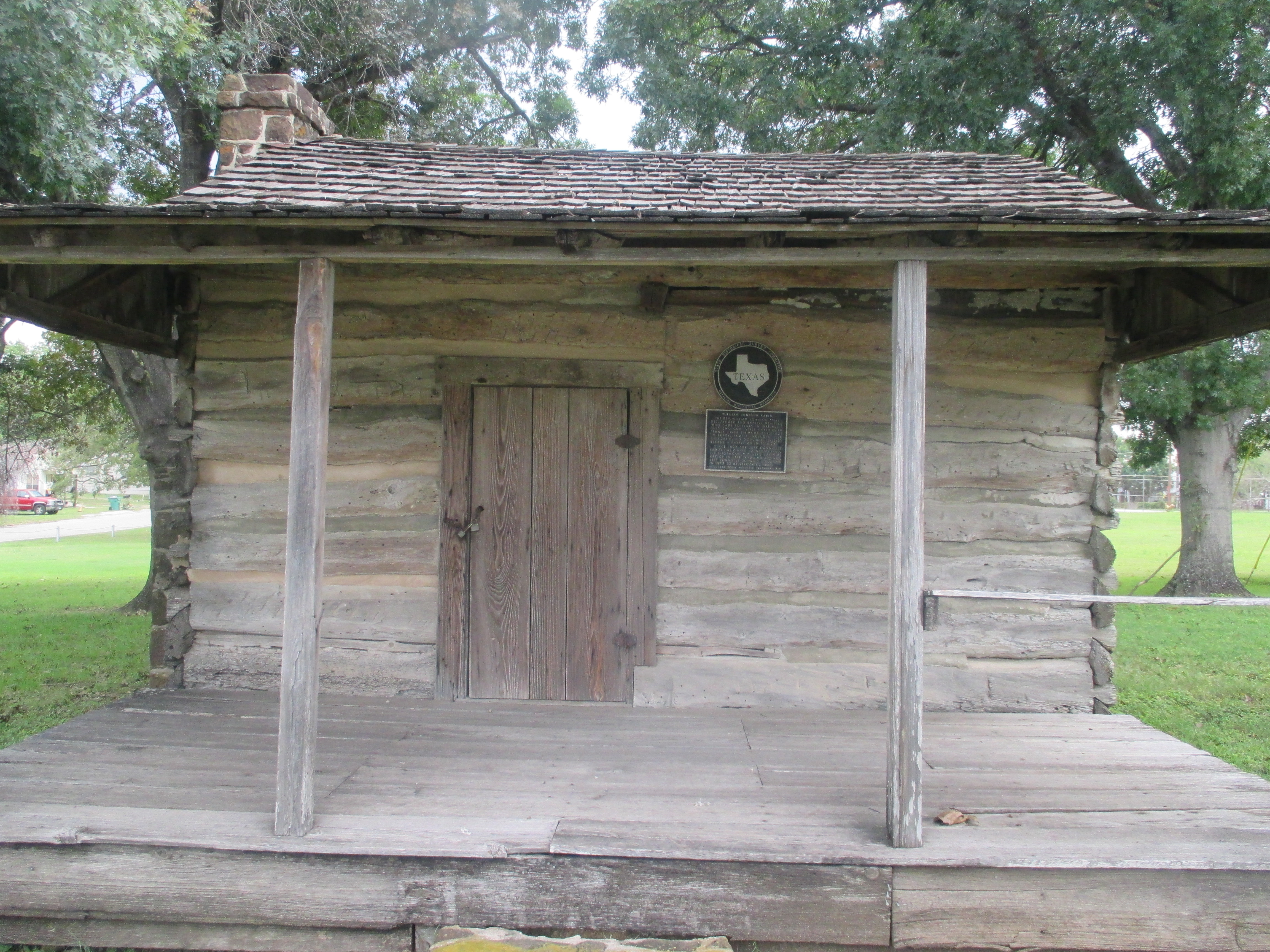 I took photo with Canon camera of William Johnson shotgun-style cabin in Luling, TX.